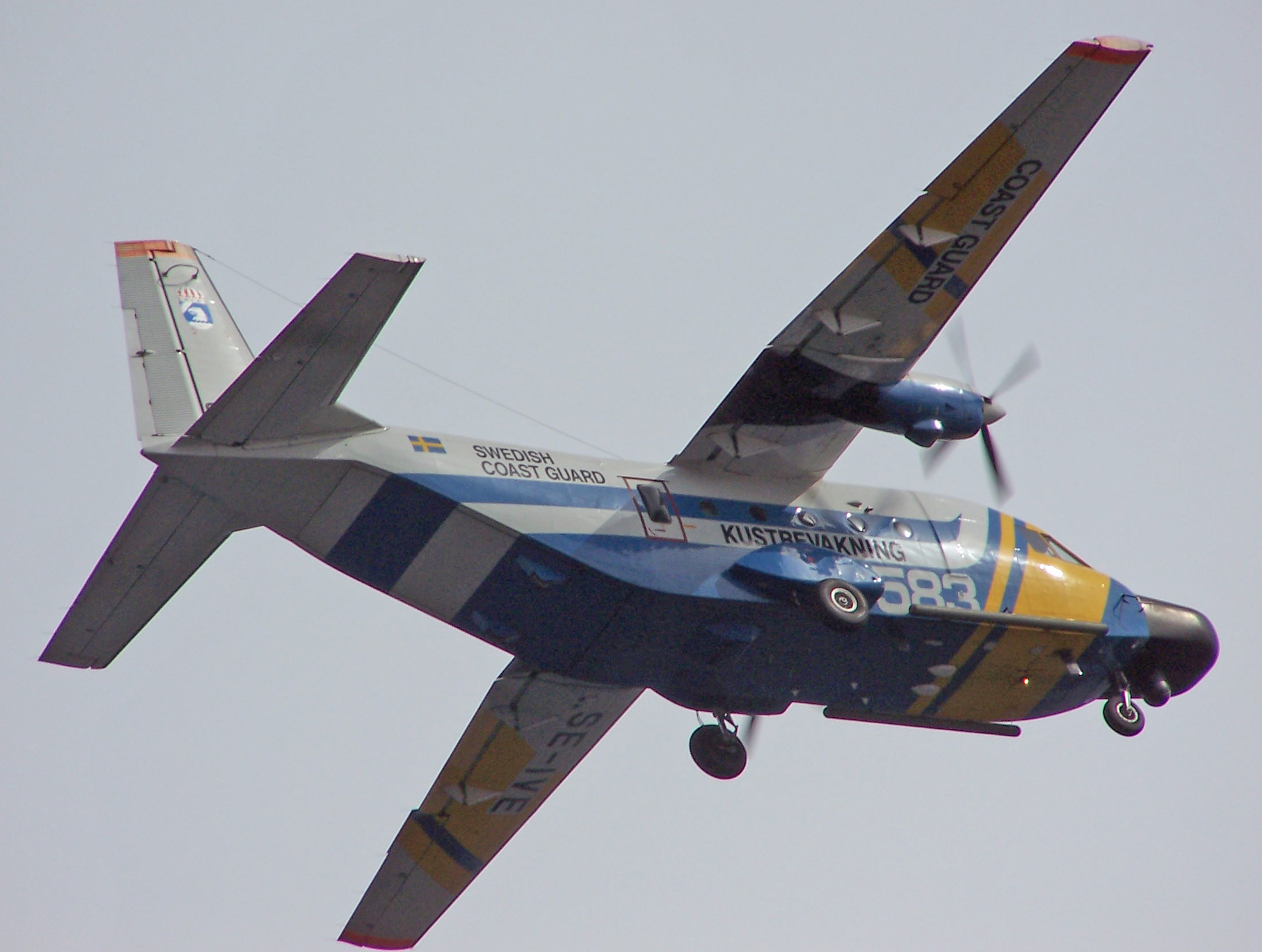 CASA 212, Swedish Coast guard's aeroplane - side view.